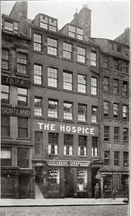 "The Hospice, High Street, Edinburgh". Illustration from page 28 of "Elsie Inglis: The Woman with the Torch"